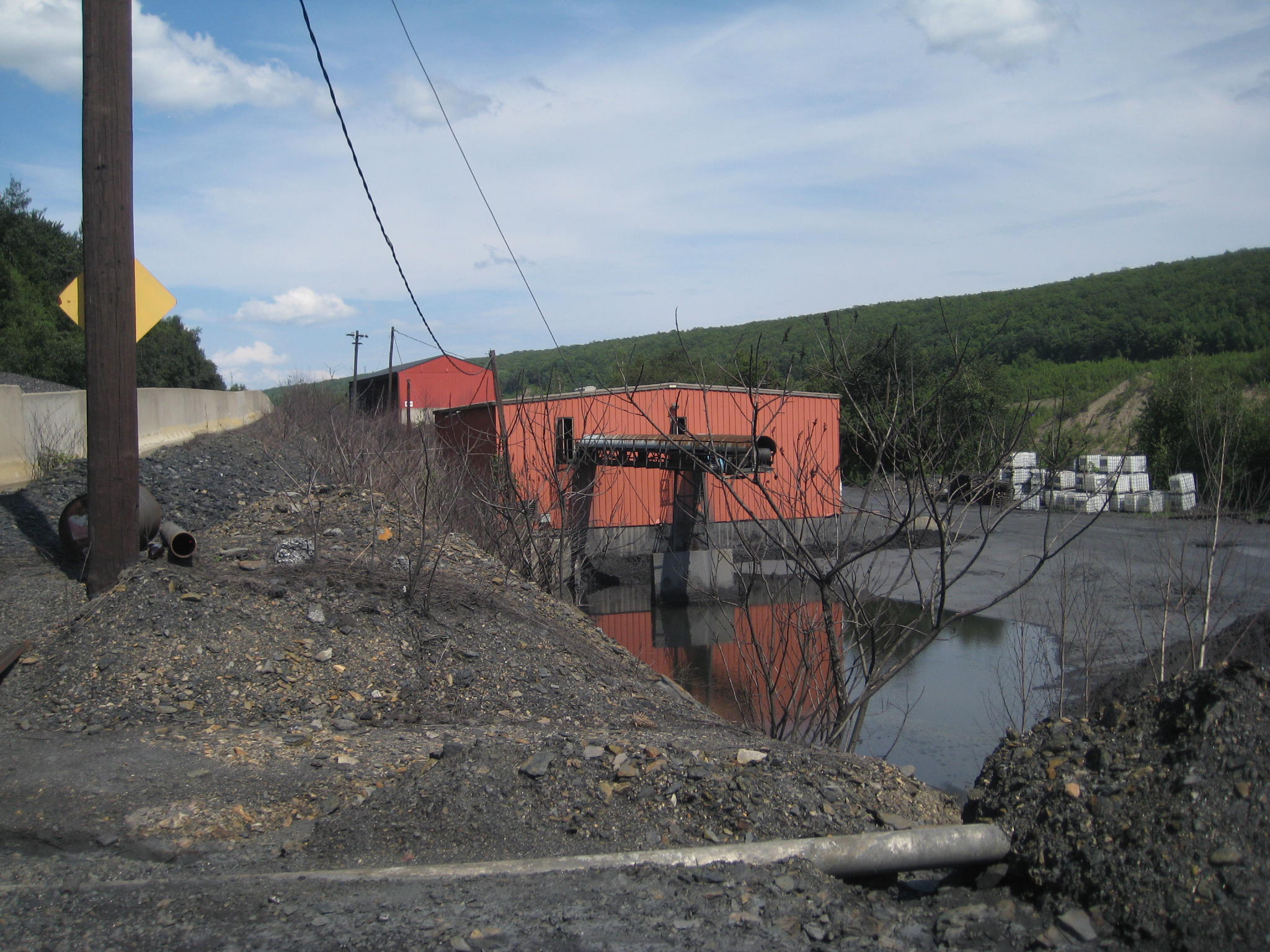 Blaschak Coal Company Coal breaker/CPP Plant: 40°55′03″N 75°59′43″W / 40.917555°N 75.995276°W New St. Nicholas Coal Breaker, Pennsylvania Route 54 Mahanoy City, PA 17948 The Employee that gave us access to the property described the purpose of this building in the foreground as a water reclamation and filtration building. The conveyor offloads anthracite powder from the centrifugal water separator, which according to that worthy, is shipped out wet to a nearby power plant. The wetness is not a deep pond, but a large shallow puddle bedded in anthracite coal dust over a concrete driveway, which is spacious. Aerial view shows the circular tell-tales of coal heaps there, and a nearby articulated loader, so the area is used a heap storage site. A similar stockpile area is evident across the street traversing across the slope-face above the building. That street forms a wye with the steep switchback roads near u-turn, so acts as a semi-dumper pre-loading staging area. Trailer trucks and dump trucks ascending the hill to load sorted anthracite would pull into the street, off the sharp-curve of the switchback's turn; where they can then back across the street to the sorted anthracite loading area. When loaded, they can make the tight hairpin turn around and down to the scales near the administration building. (See #IMG_4467-excluding John, this is the view the driver would have after backing down in this manner)